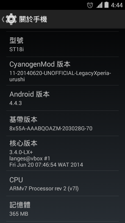 Cyanogen Mod 11版本Android 4.4.3固件